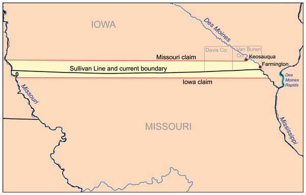 The maps shows the lands disputed in the Honey War between Missouri and Iowa. It is based on the text of the court decision settling the dispute. [1]